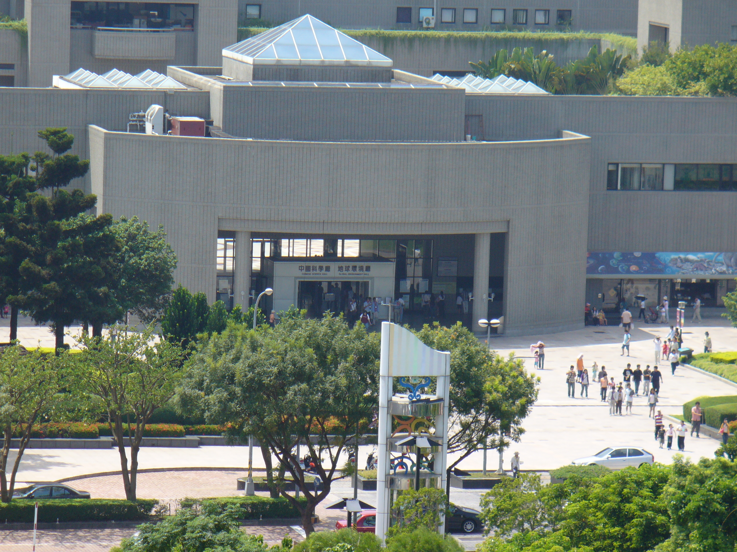 Science Museum enterance / Taichung, Taiwan.